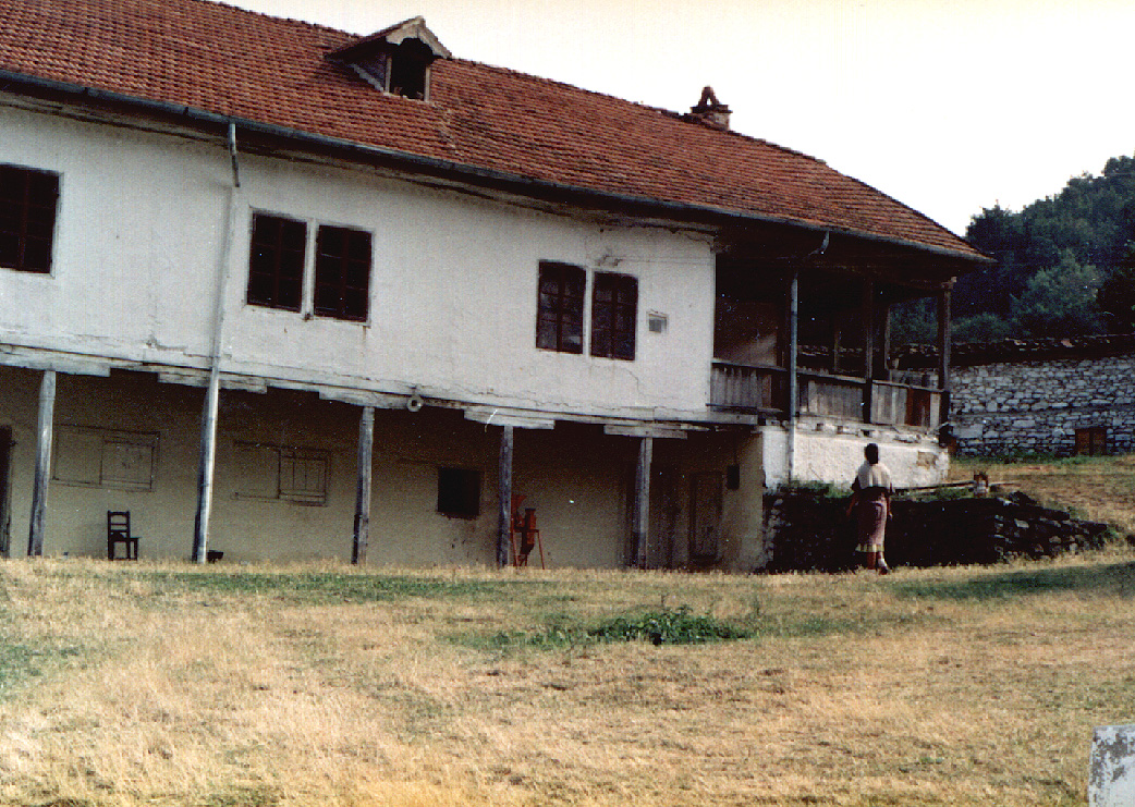 Prohor Pčinjski Monastery in 1979